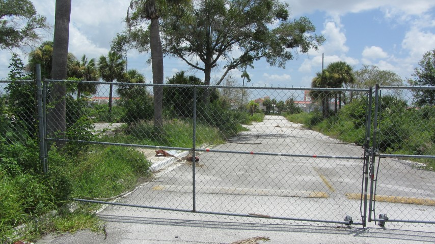 Nothing is left of the Court of Flags except some roads and concrete pads.